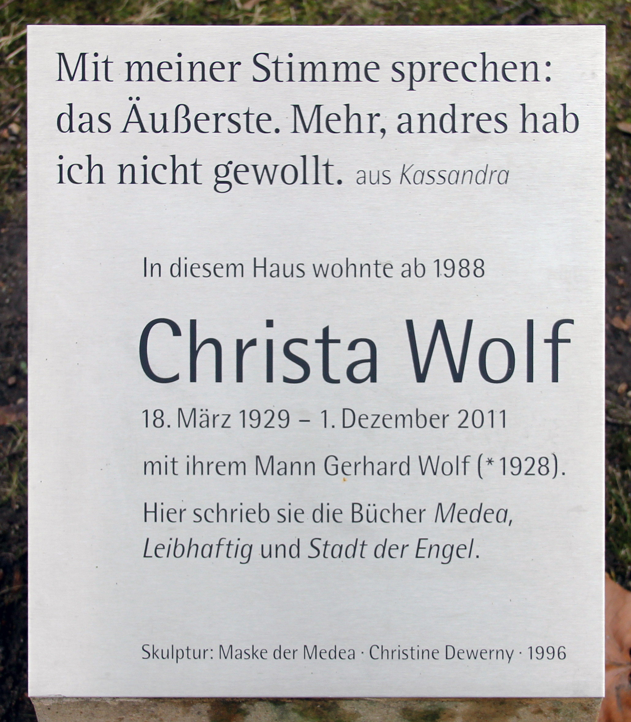 Memorial plaque, Christa Wolf, Amalienpark 7, Berlin-Pankow, Deutschland